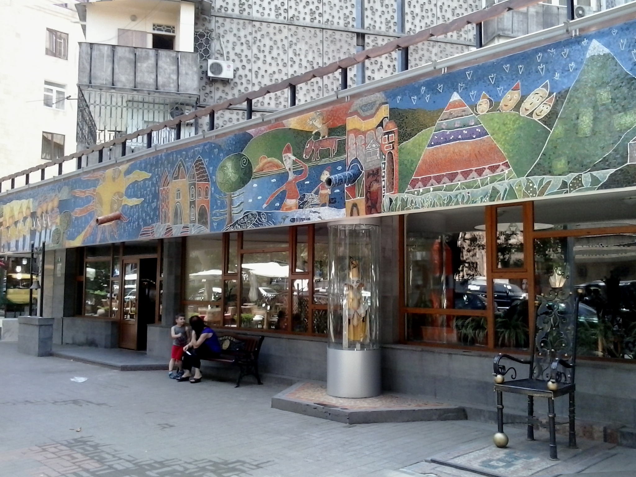 Yerevan puppet theatre named after Hovhannes Tumanyan